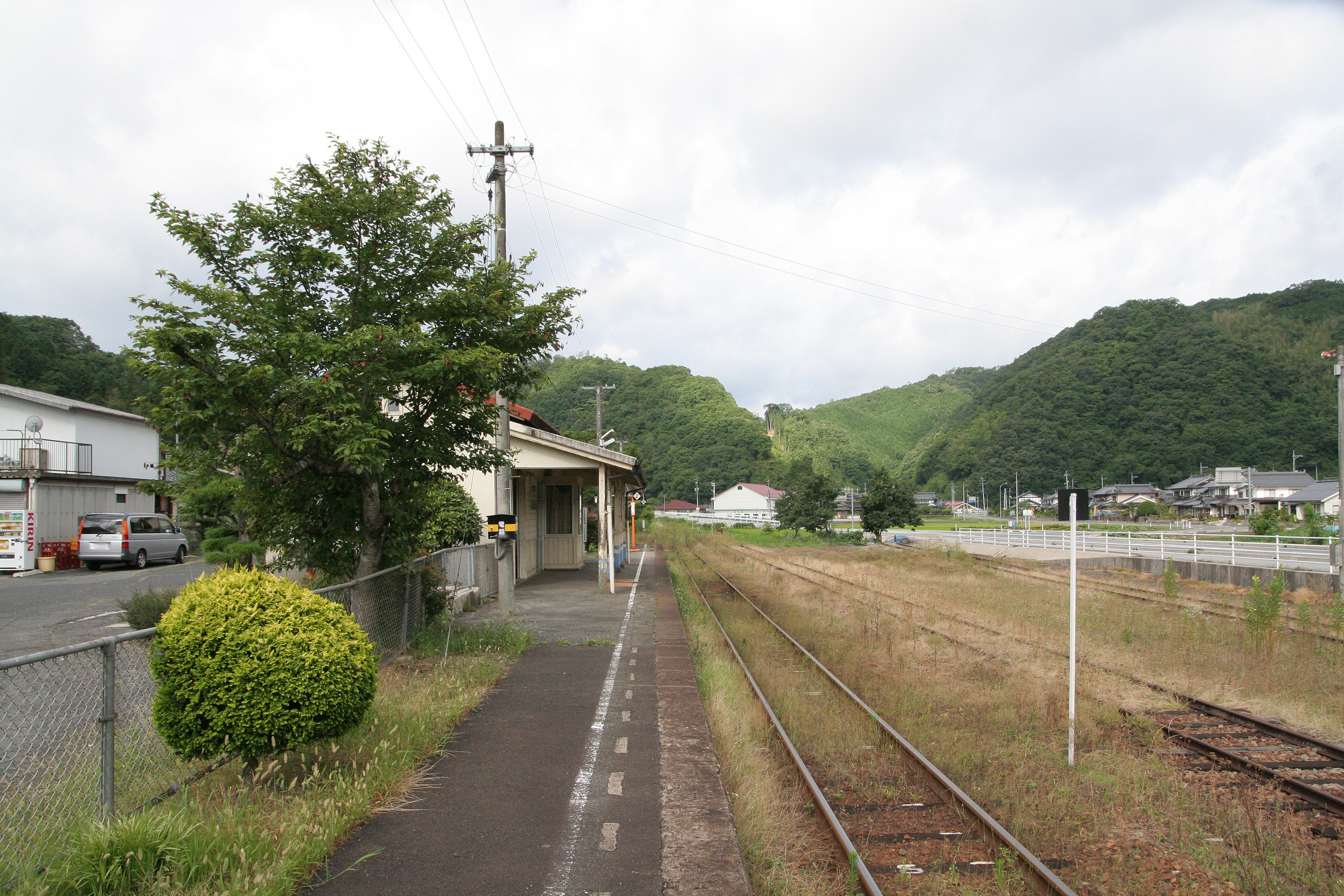 West Japan Railway Fukuen Line Bingo-Yasuda Station enclosure